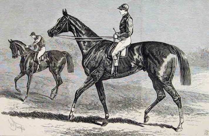 Etching of St Blaise, Derby winner 1883